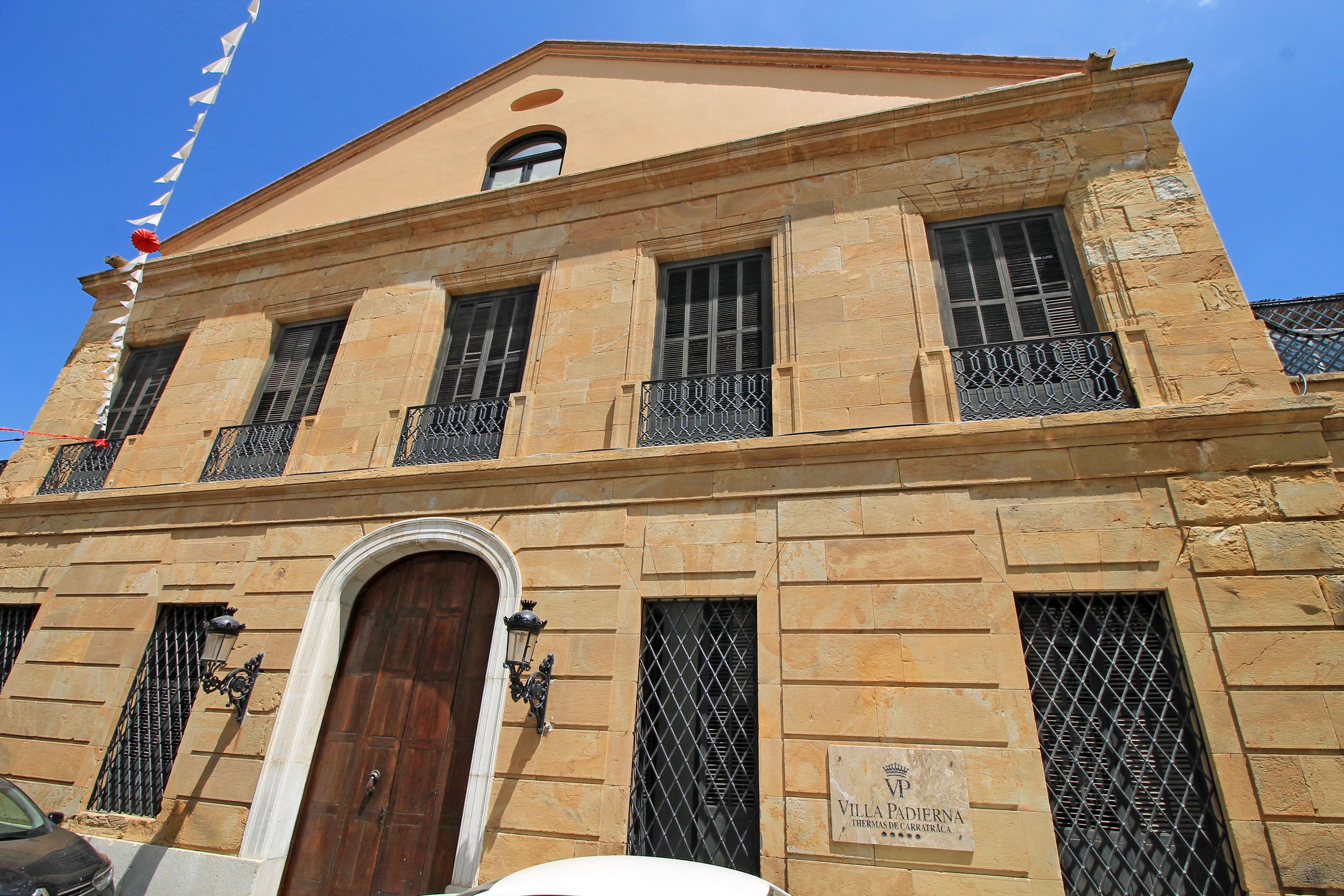 Main façade of Balneario (spa resort) of Carratraca (Province of Málaga, Spain).